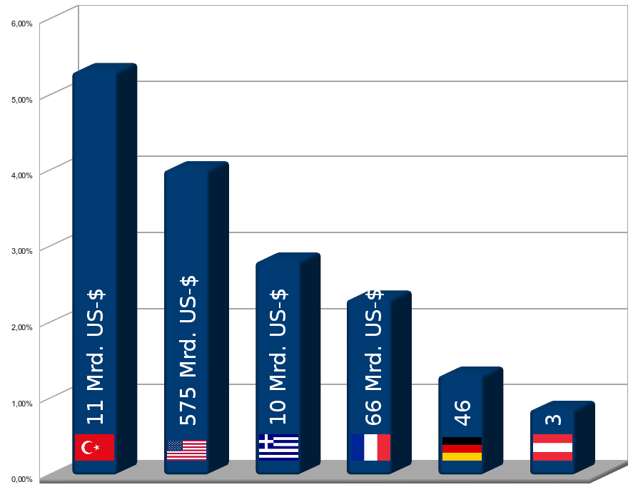 Military Budget in Percent of the GDP. Datasource: Old wiki-article